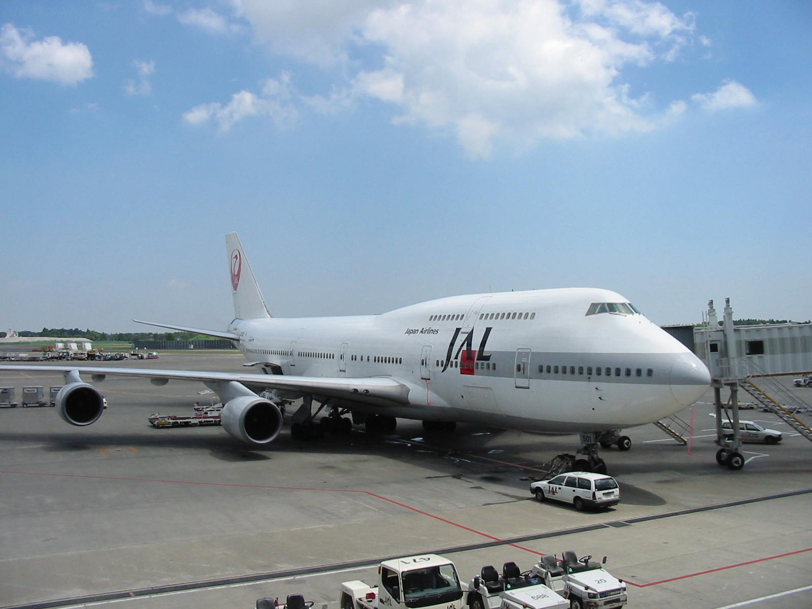 JAL Boeing 747 at Narita airport near Tokyo Japan, picture made by user:Ellywa This is a superseded colour scheme.